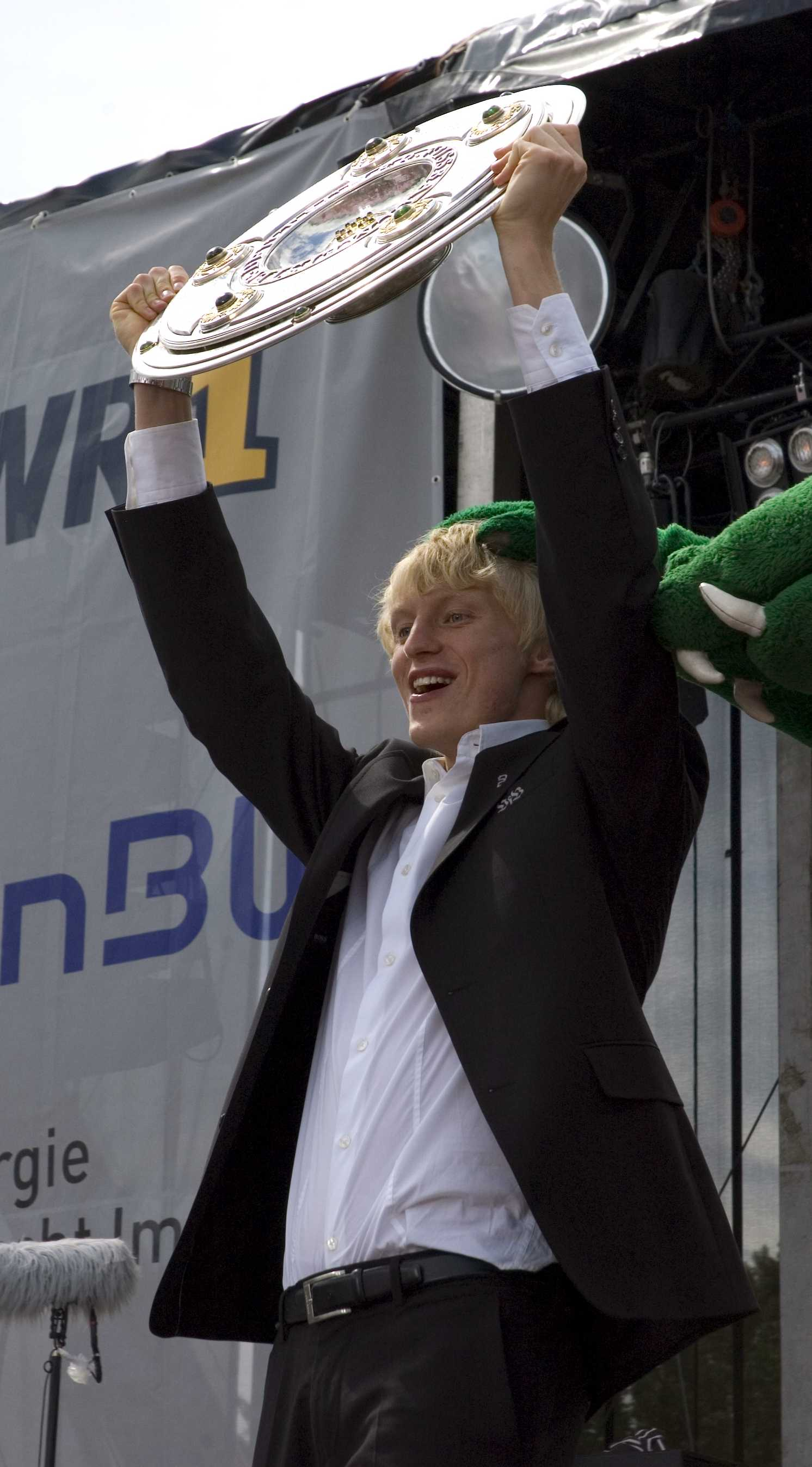 Andreas Beck